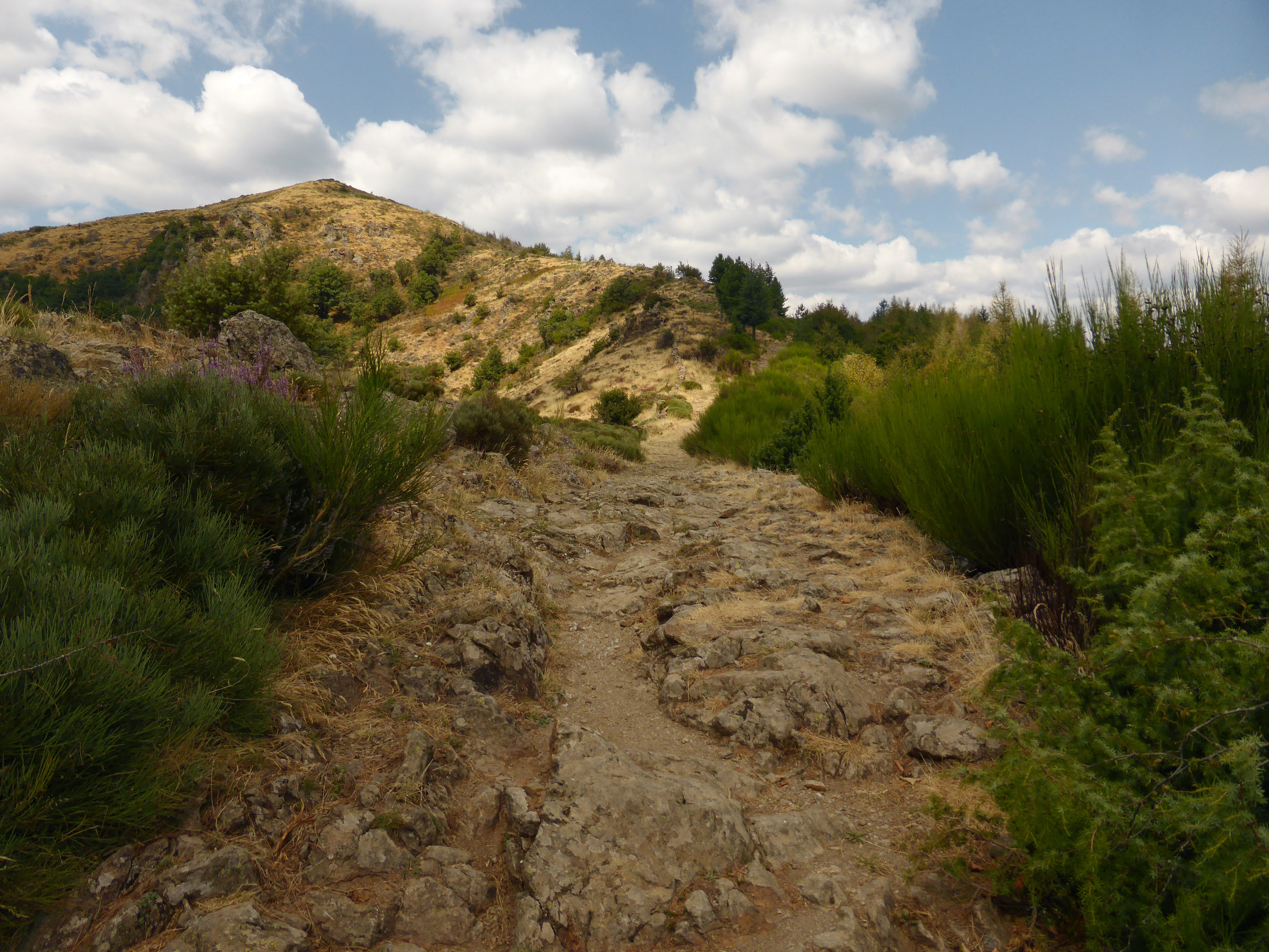 View on the Serre de Borgne top, from the sheep-path used by the GR6-GR67, near the Serre de Borgne (between the summit and the Asclier Pass).